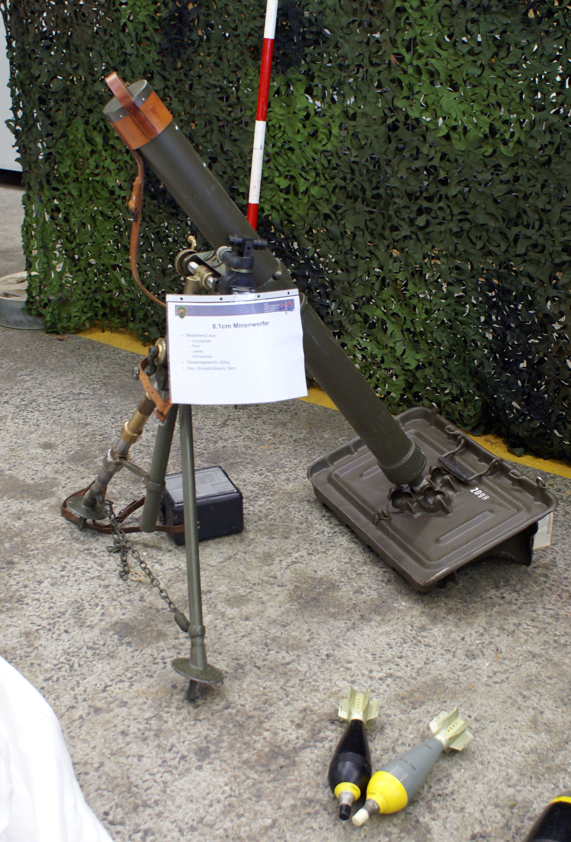 Swiss Army. 8.1cm mortar and ammunition.